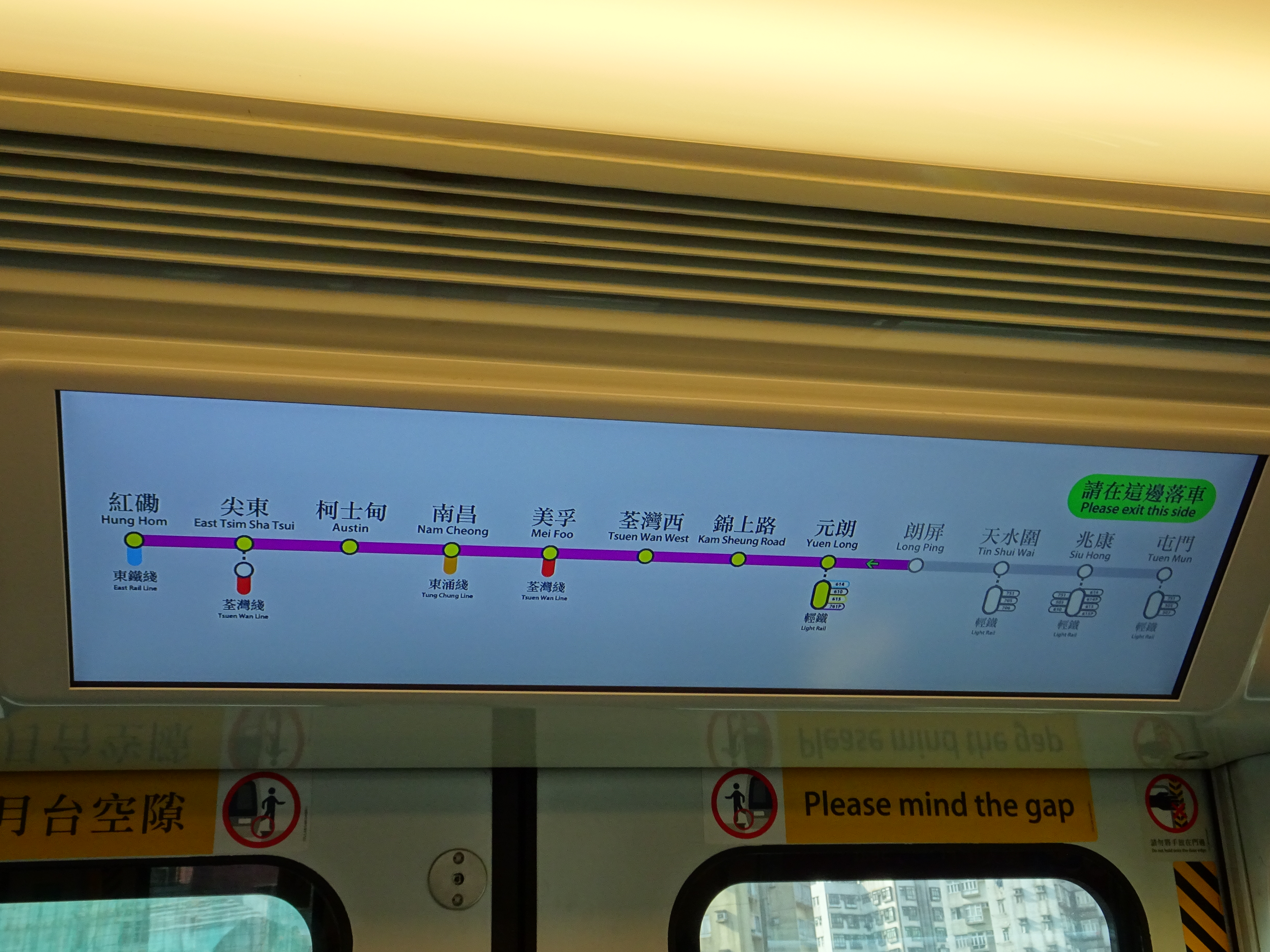 West Rail Line in Hong Kong.